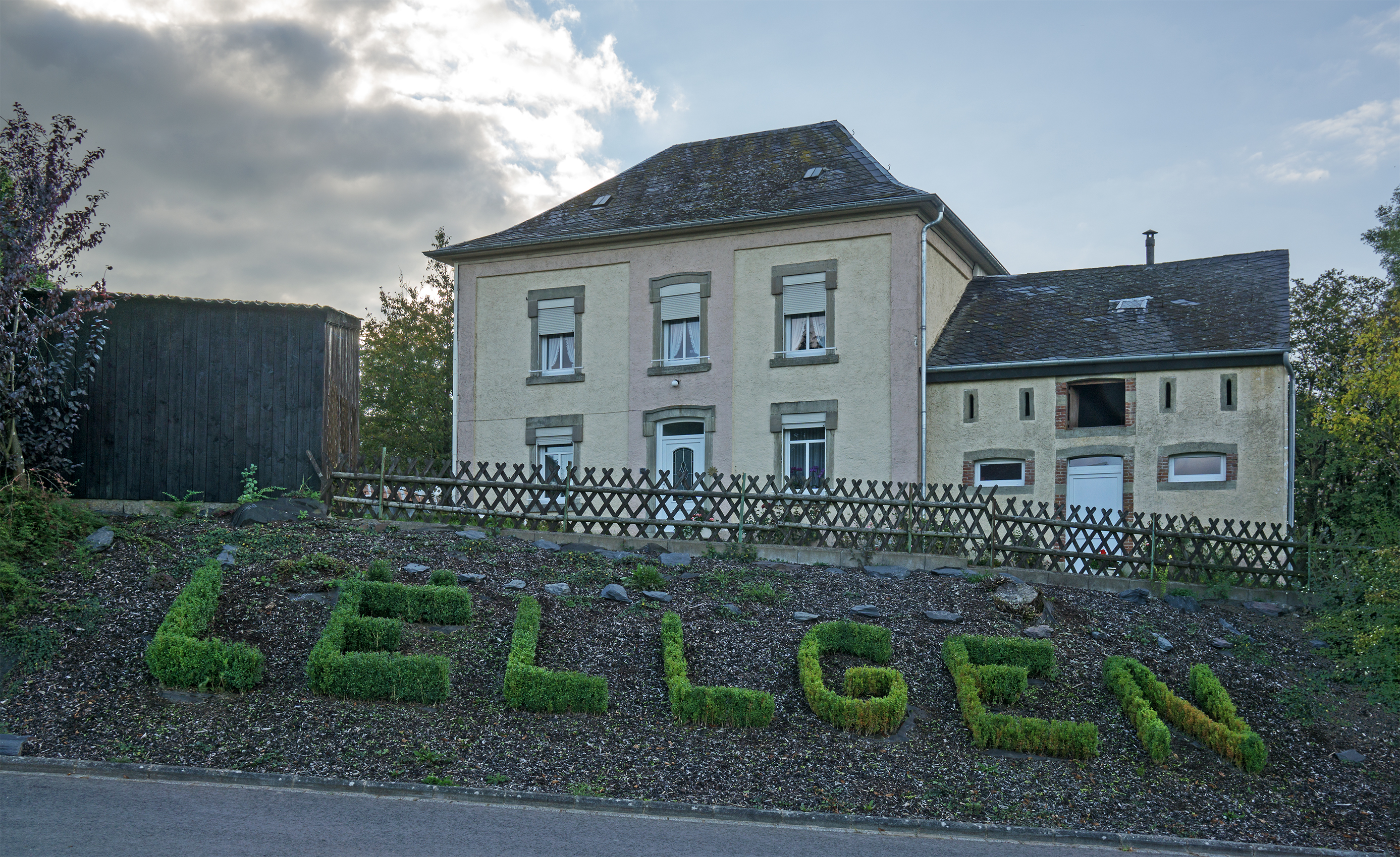 Buildings in Lullange